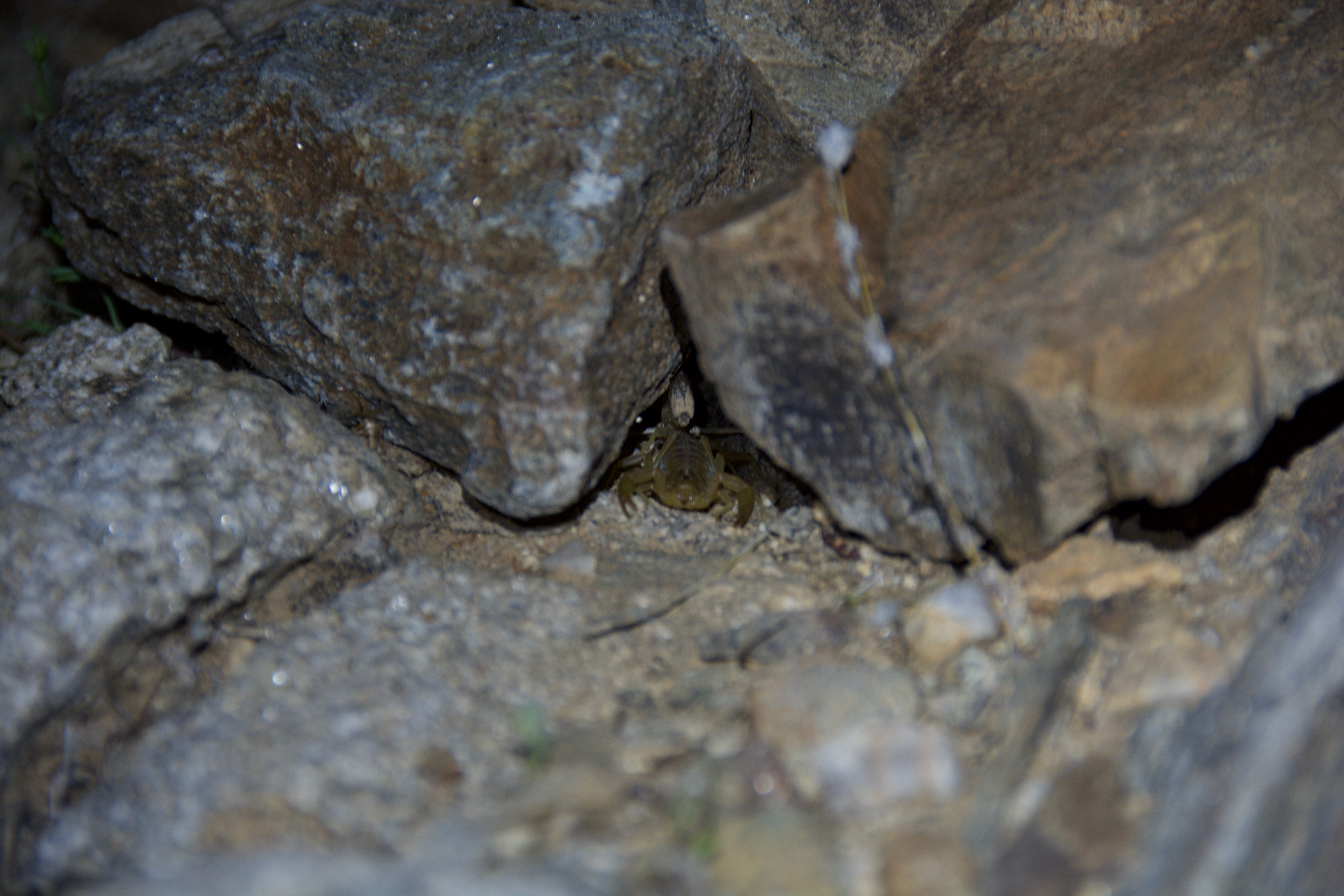 A common scorpion hiding under a rock from lights